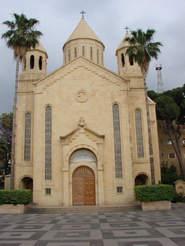 Saint Gregory the Illuminator Cathedral (1940) at the The Catholicossate of the Great House of Cilicia, seat of the Catholicos of Cilicia of the Armenian Apostolic Church in Antelias, Lebanon.